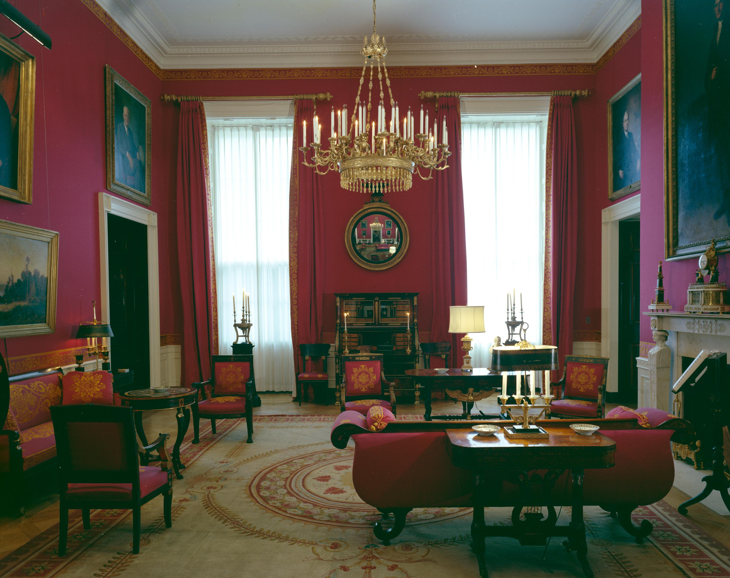 White house Red Room, as designed by Stéphane Boudin. This is a work created by an employee of the U.S. government.